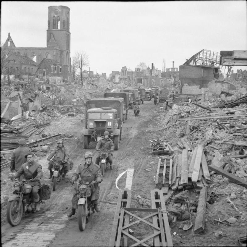 The British Army in North-west Europe 1944-45 Trucks and motorcycles pass through Stadtlohn, 1 April 1945.